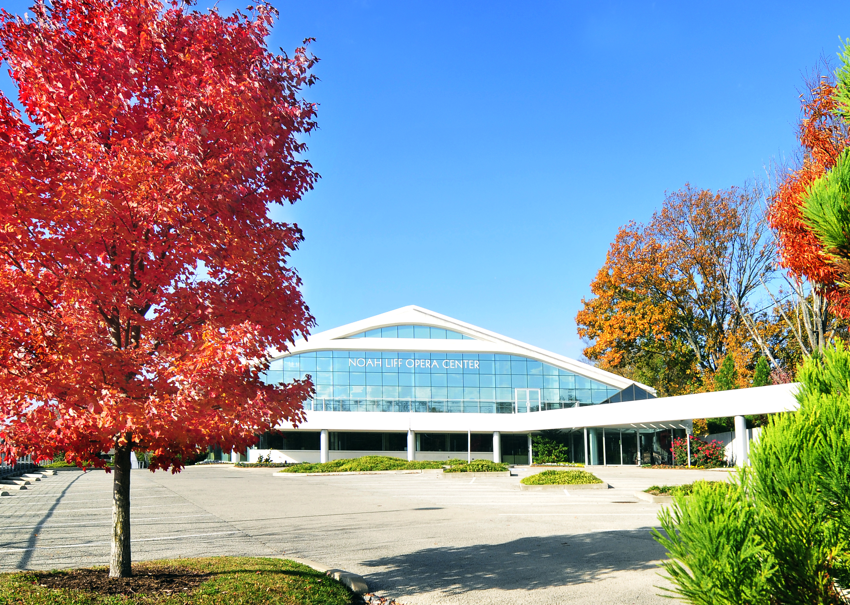 Noah Liff Opera Center in Nashville, TN